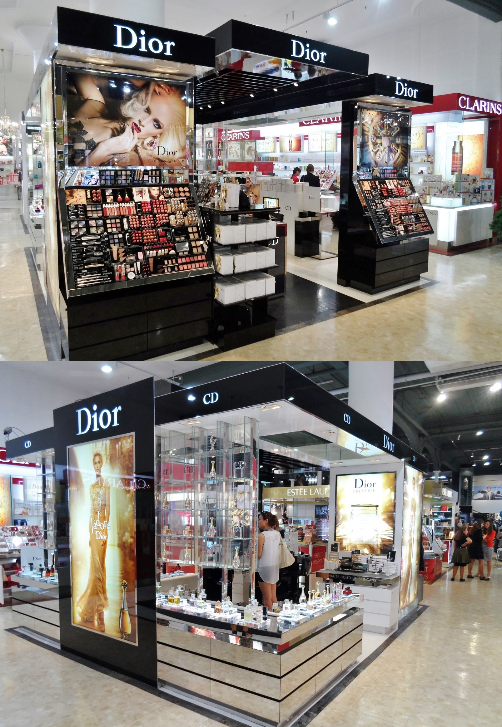 Large Dior cosmetics counter at Queen Street branch of Auckland, New Zealand department store Smith & Caughey's on Queen Street in downtown Auckland, New Zealand in 2013.